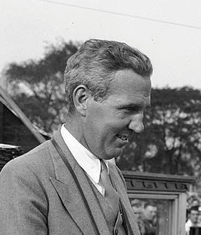 Clement George McCullagh